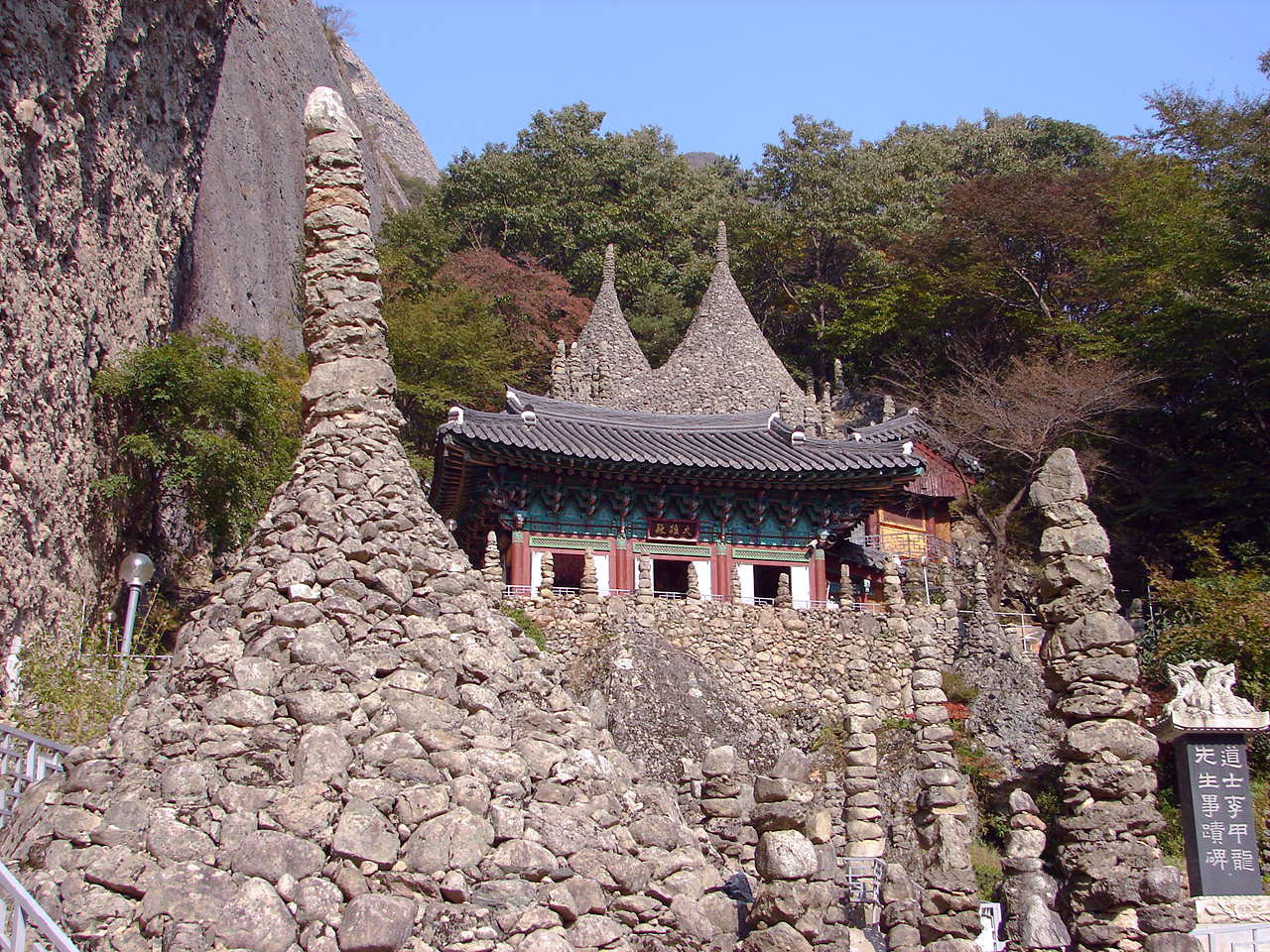 Tapsa (Buddhist Temple) and the Stone Pagodas of Maisan (Hourse Ear Mountain) in Jinan County, North Jeolla Province, South Korea.